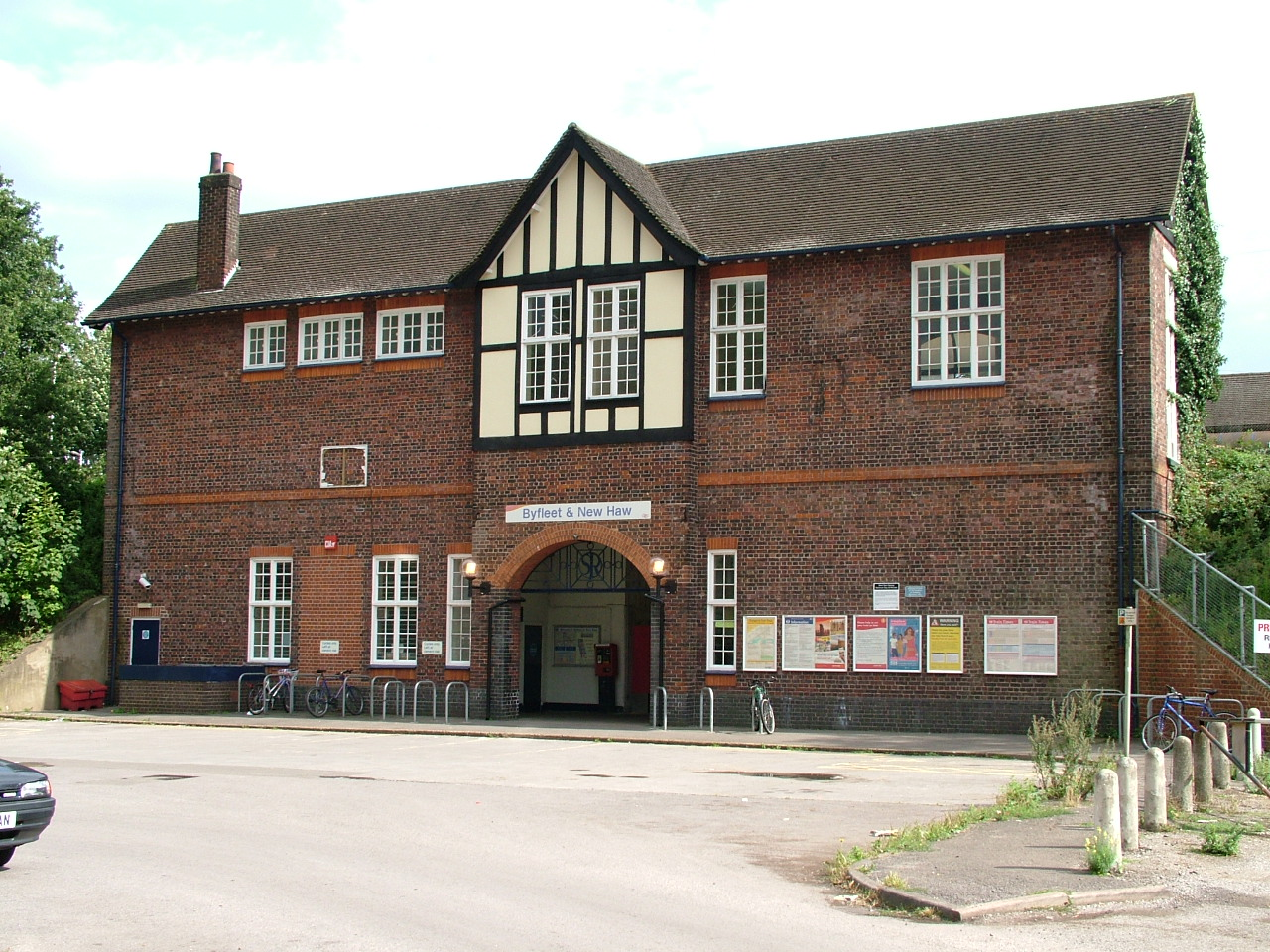 Byfleet and New Haw Railway station, Surrey, United Kingdom. Photograph taken 20th August 2006.